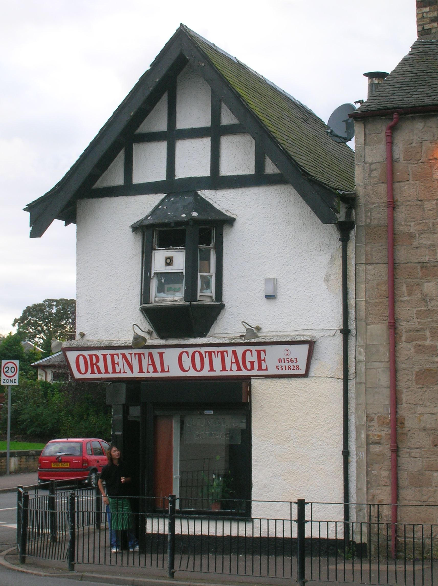 The old Tolbooth, Kilmaurs, East Ayrshire, Scotland.